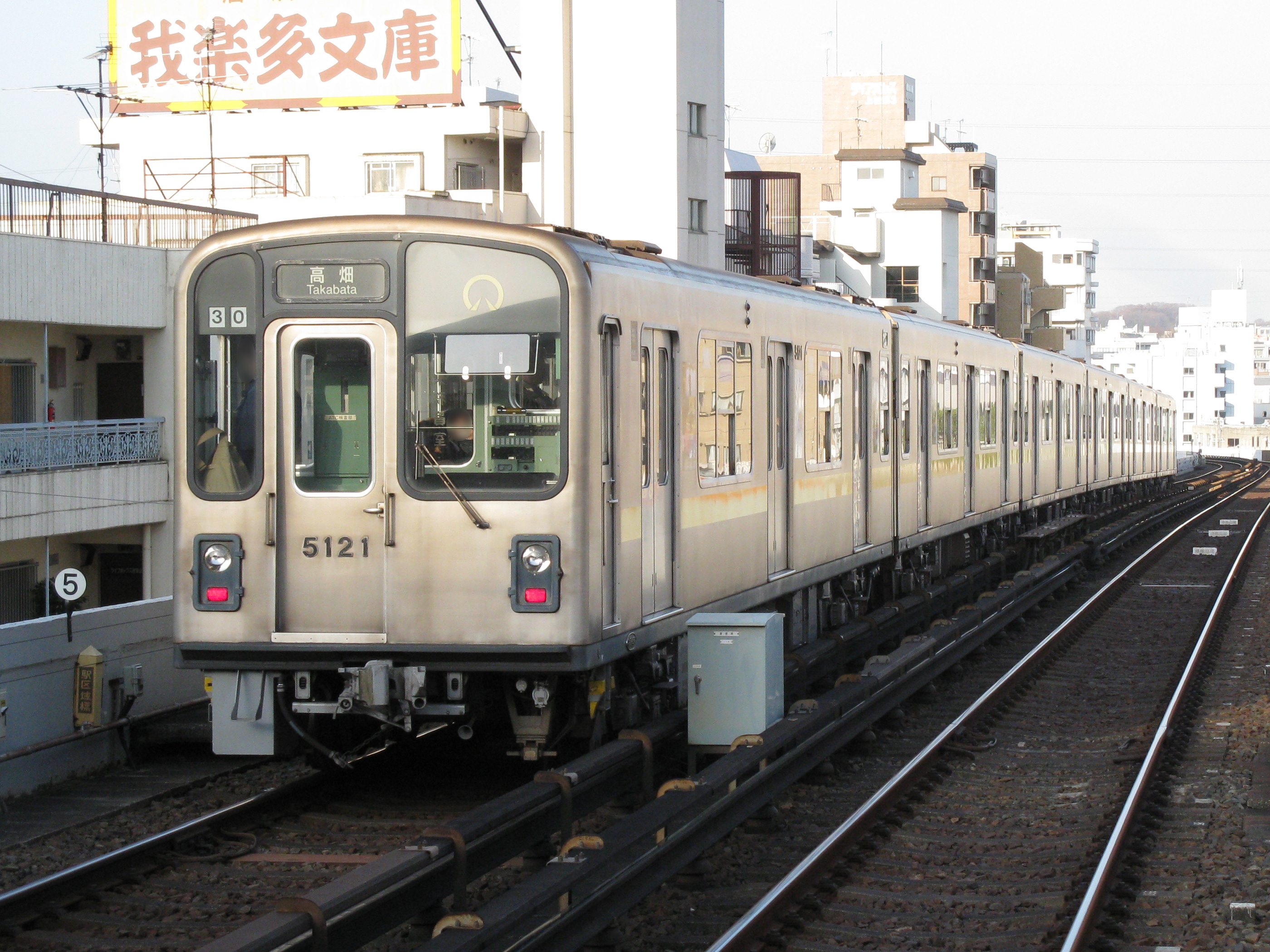 Nagoya Municipal Subway 5000 series